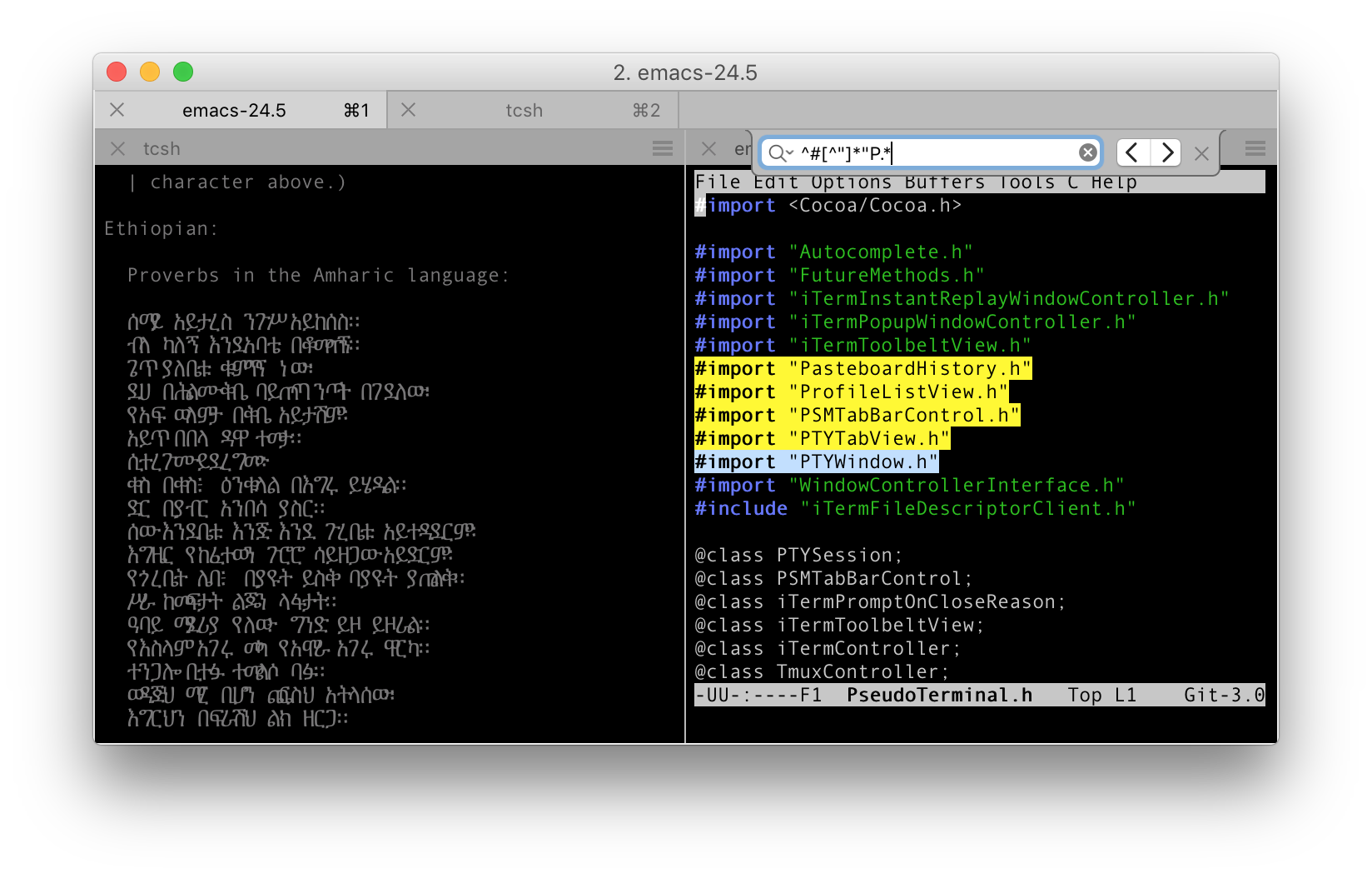 Screen shot demonstrating various features of iTerm2